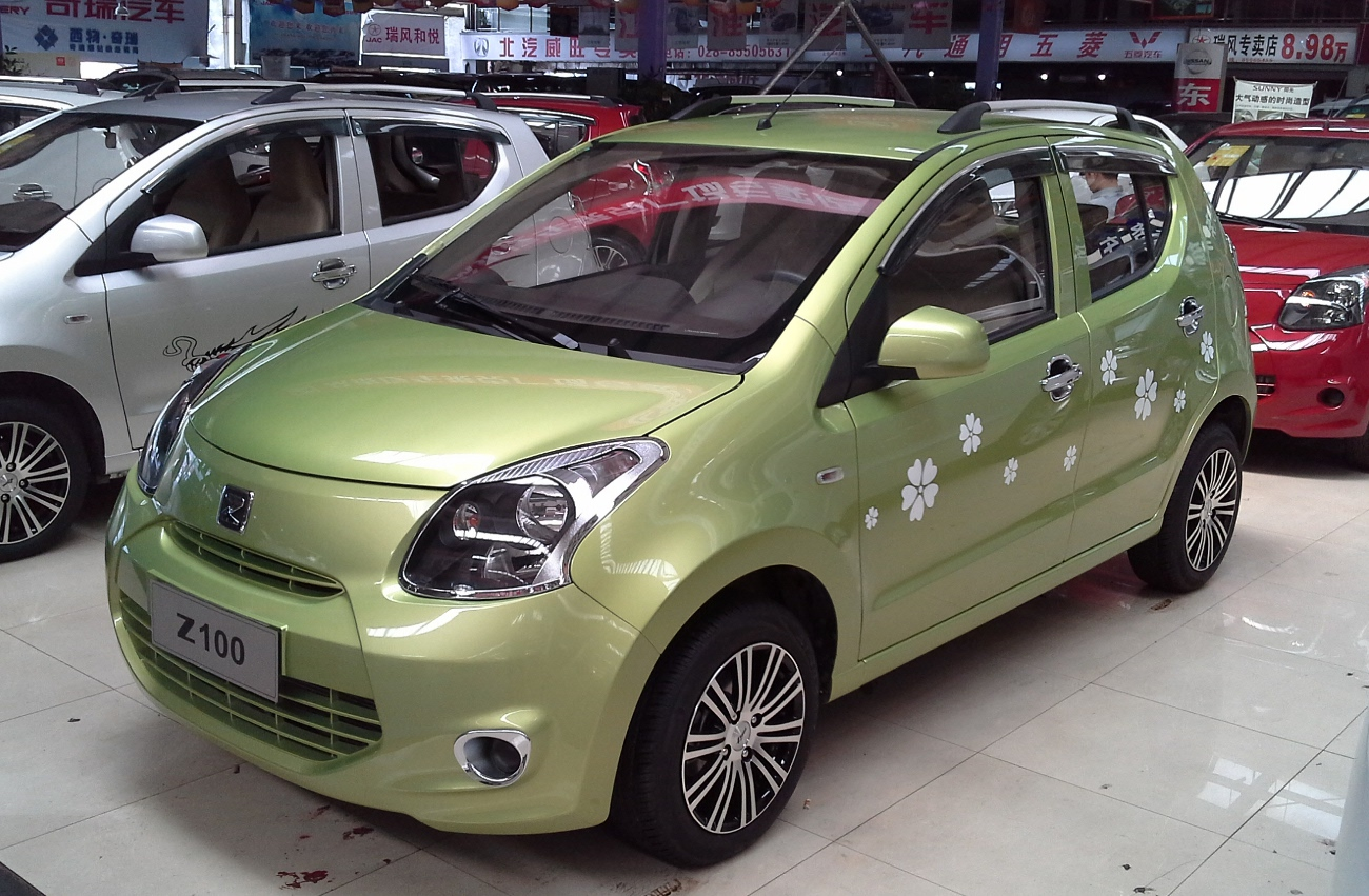 Zotye Z100 photographed in Chengdu, Sichuan province, China.